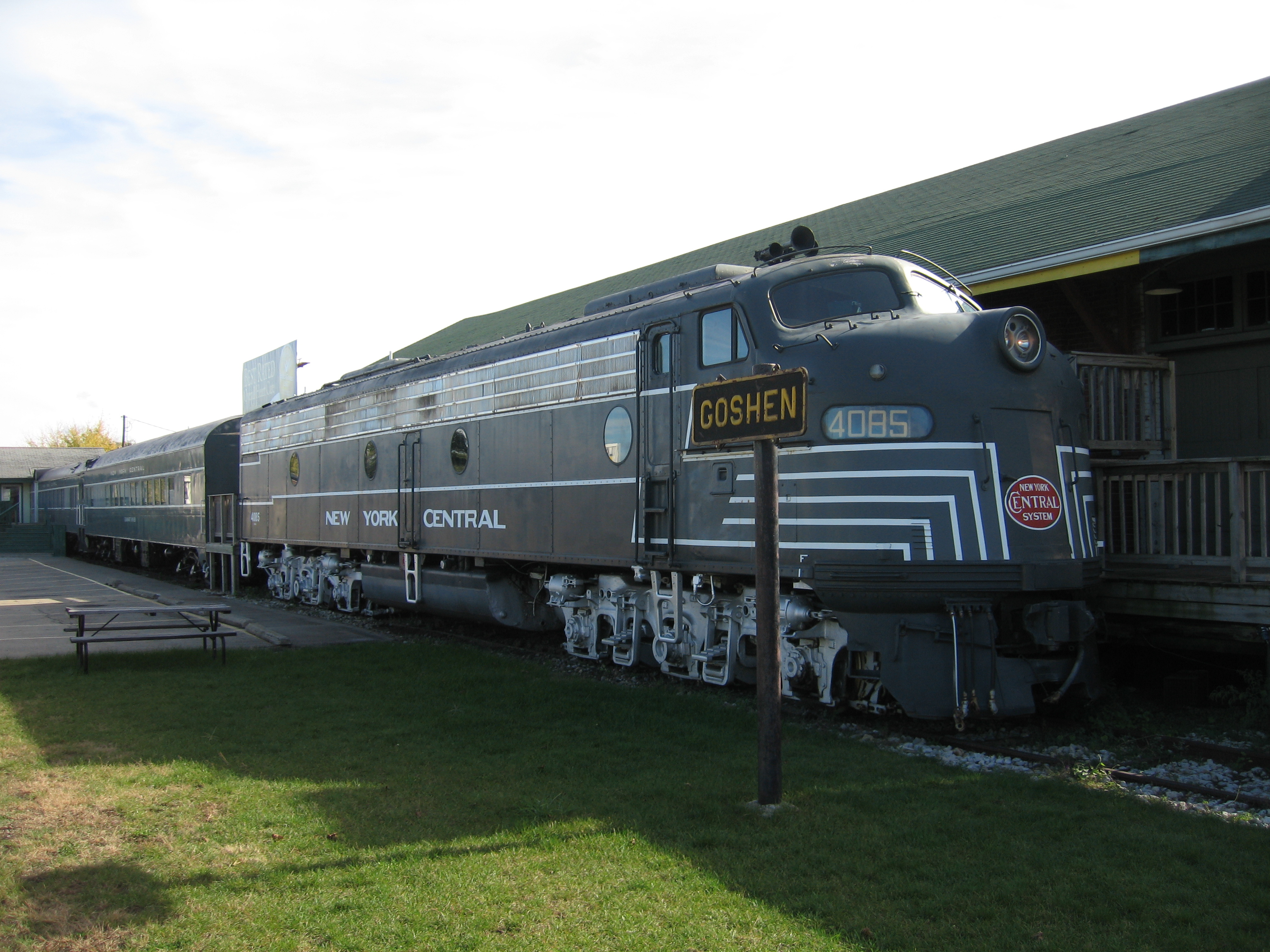 Train at the National New York Central Railroad Museum, Elkhart, IN. New York Central System. The sign is from Goshen, IN